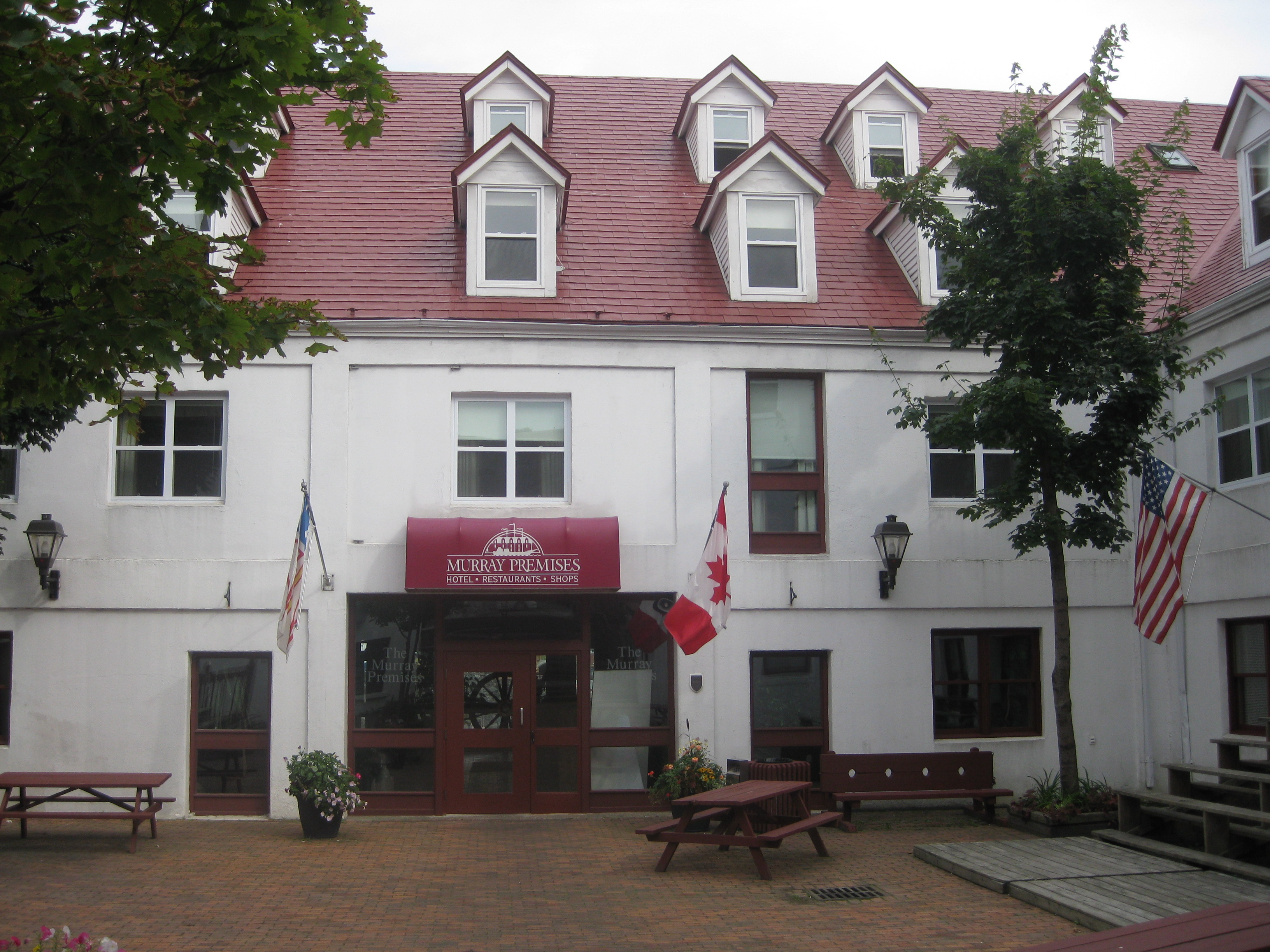 This is the entry way to the Murray Premises in St. John's, Newfoundland, Canada